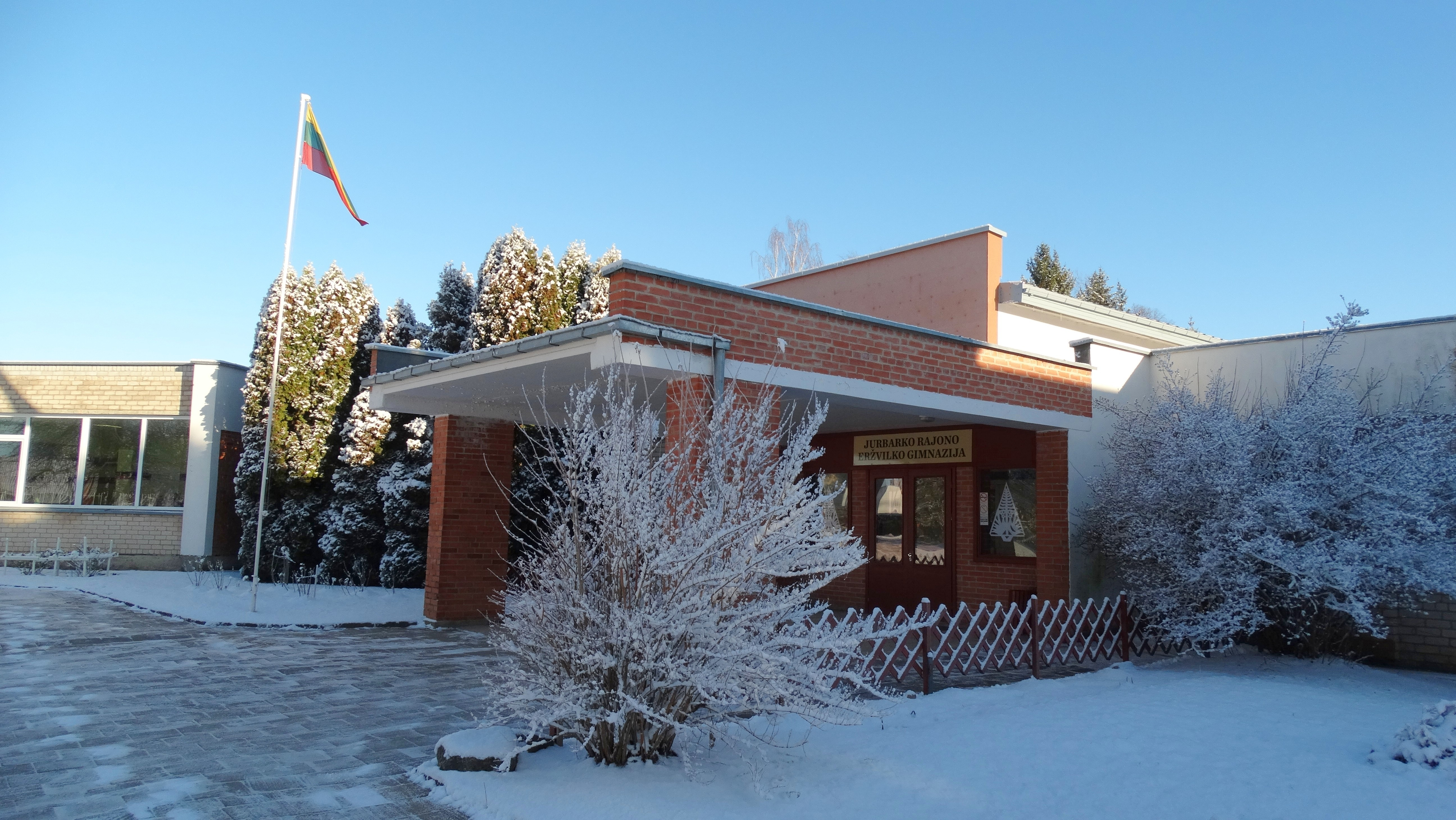 Gymnasium, Eržvilkas, Jurbarkas, Lithuania